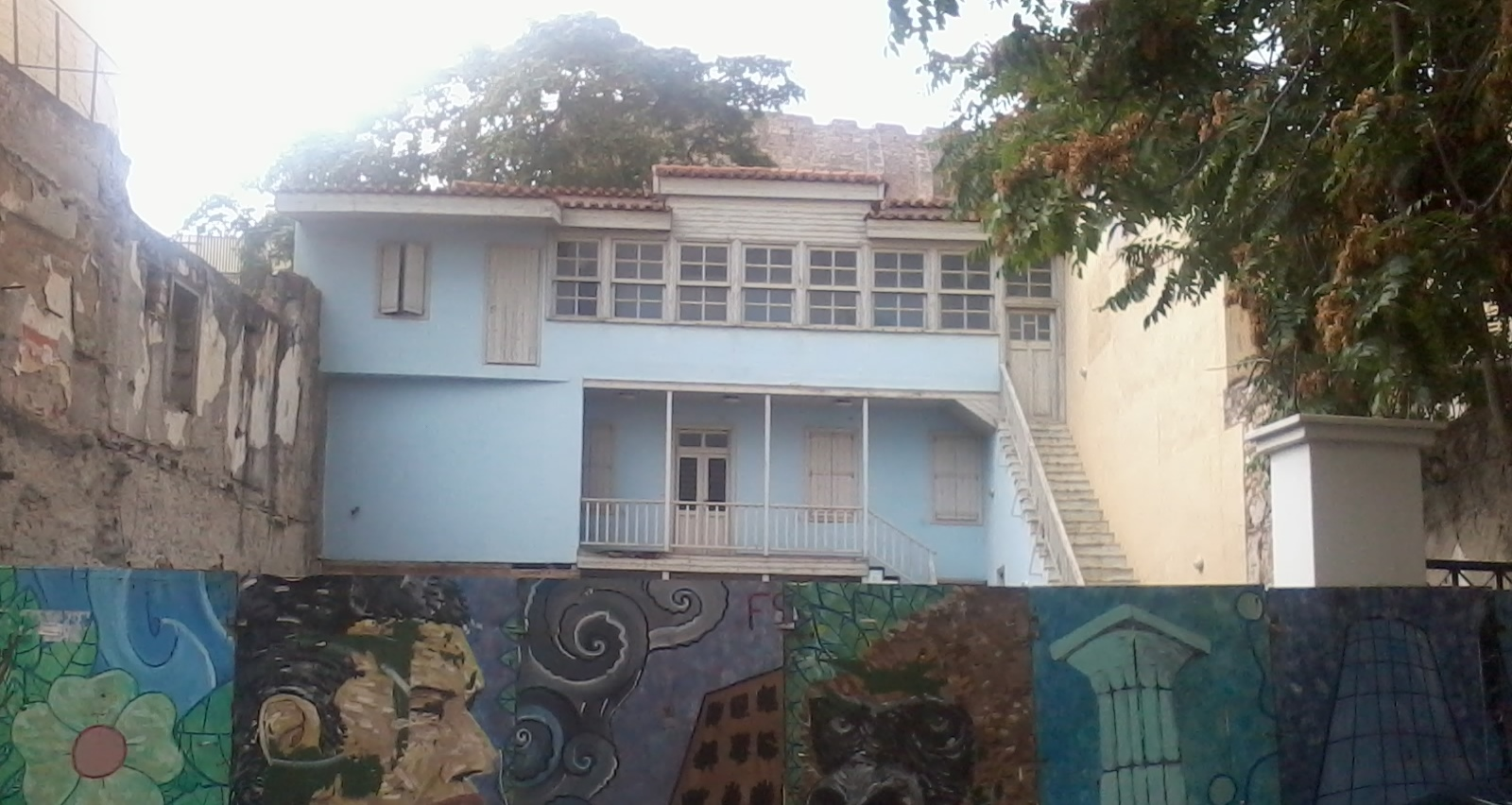 Neoclassical building at Tripodon 32 and Rangavas in Plaka (Athens, Attica), which filmed part of the greek movie "And the Wife Shall Revere Her Husband" (I de gyni na fovitai ton andra"